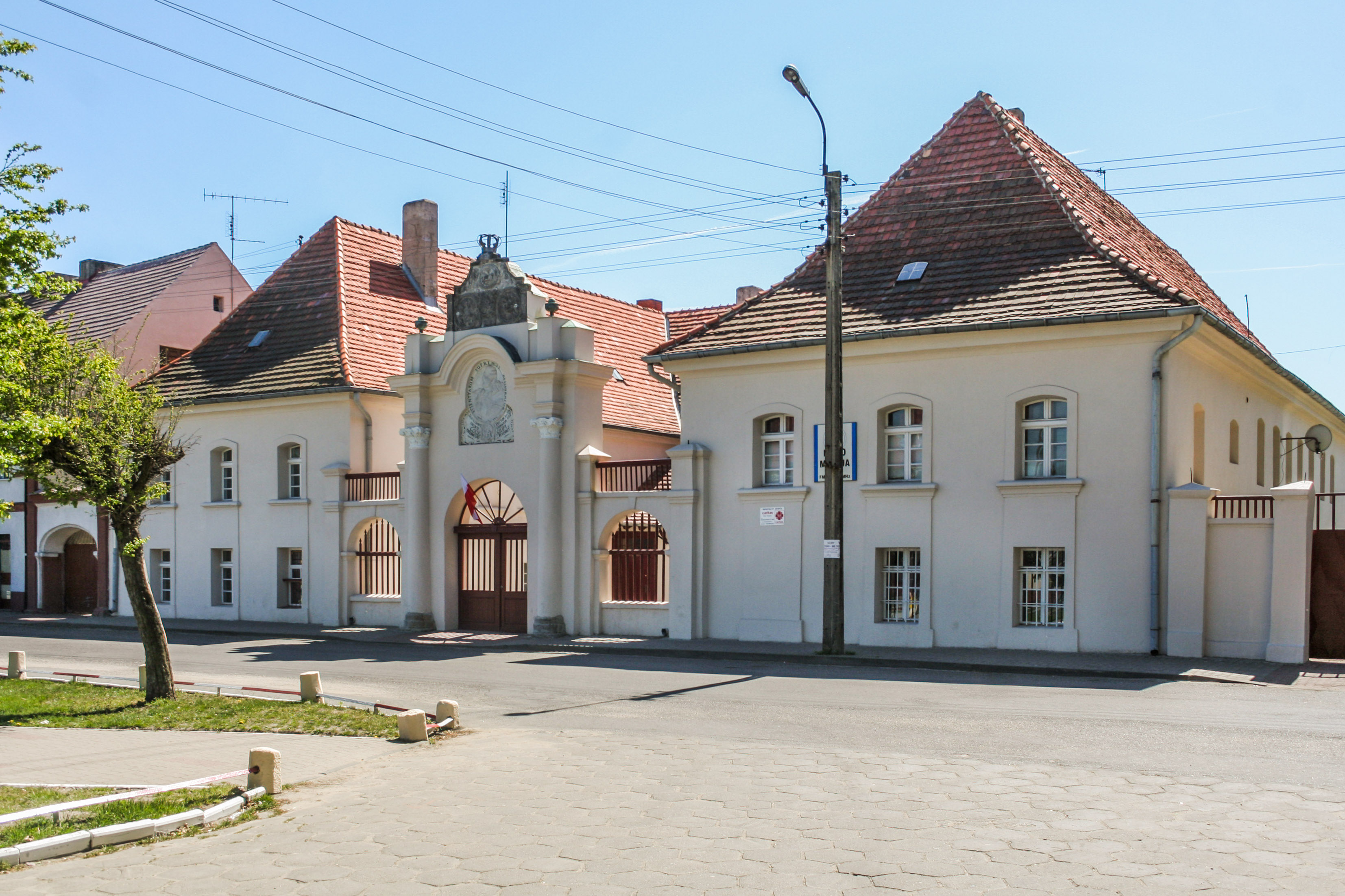 Trzemeszno, former alumnate (school) from 18th century